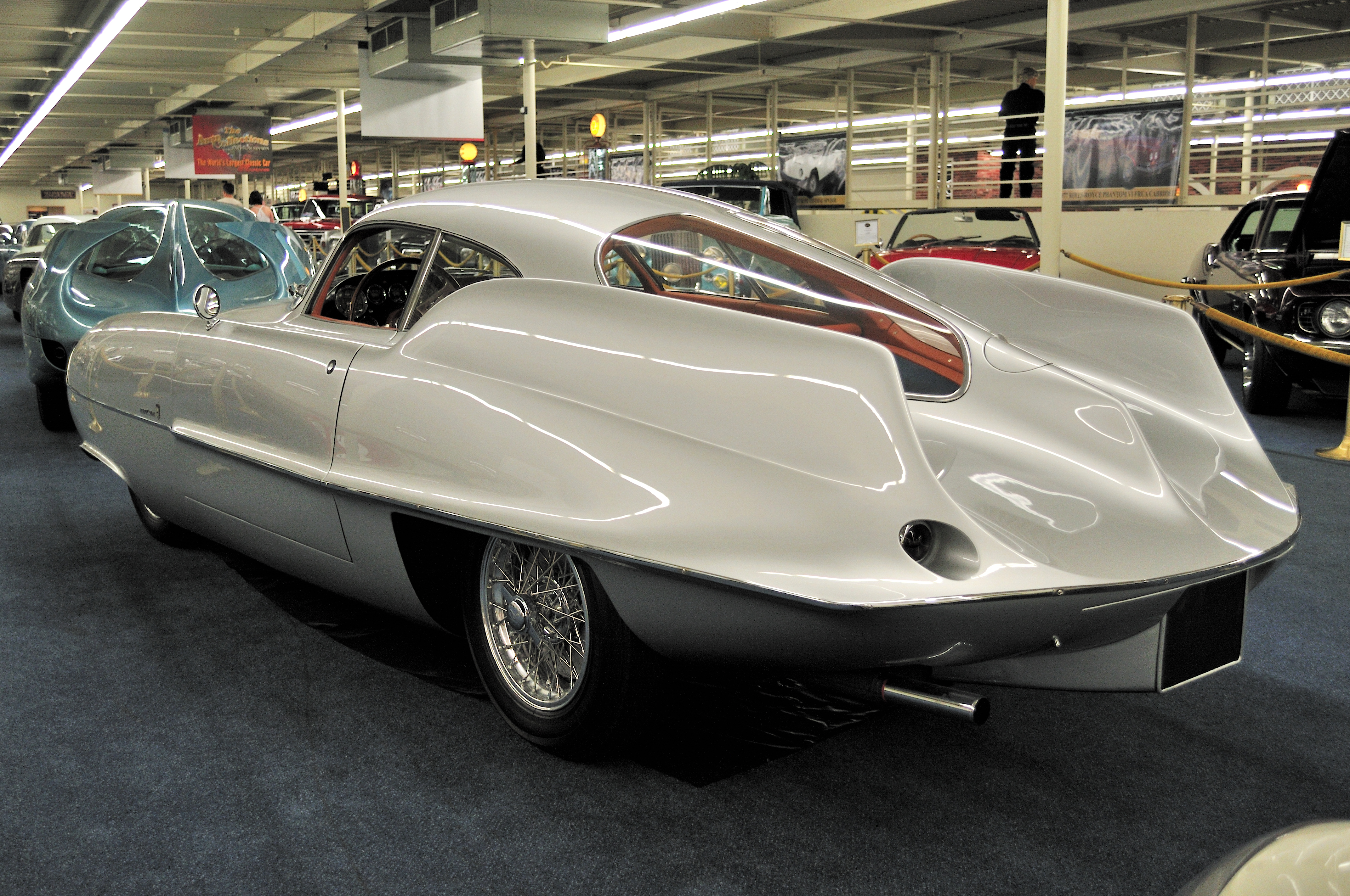 The third and final BAT car to be made and shown at the Turin Auto show was the BAT9. It was made to look more like current Alfa Romeo models than the other BATs had. It has been called the best looking of all the BATs, but there are those who disagree. The BAT 9 did away with the marked wing lines of the previous models in favor of a cleaner, more sober line. The tail fins, which in the other two midels, 5 and 7, had a real wing-like look, were sized down into two small metal plates, much like the tail fins in production on American and some European cars of the time. Bertone transformed the highly creative styling of the two previous BAT models into design credibility, abandoning the extremes of the other designs.